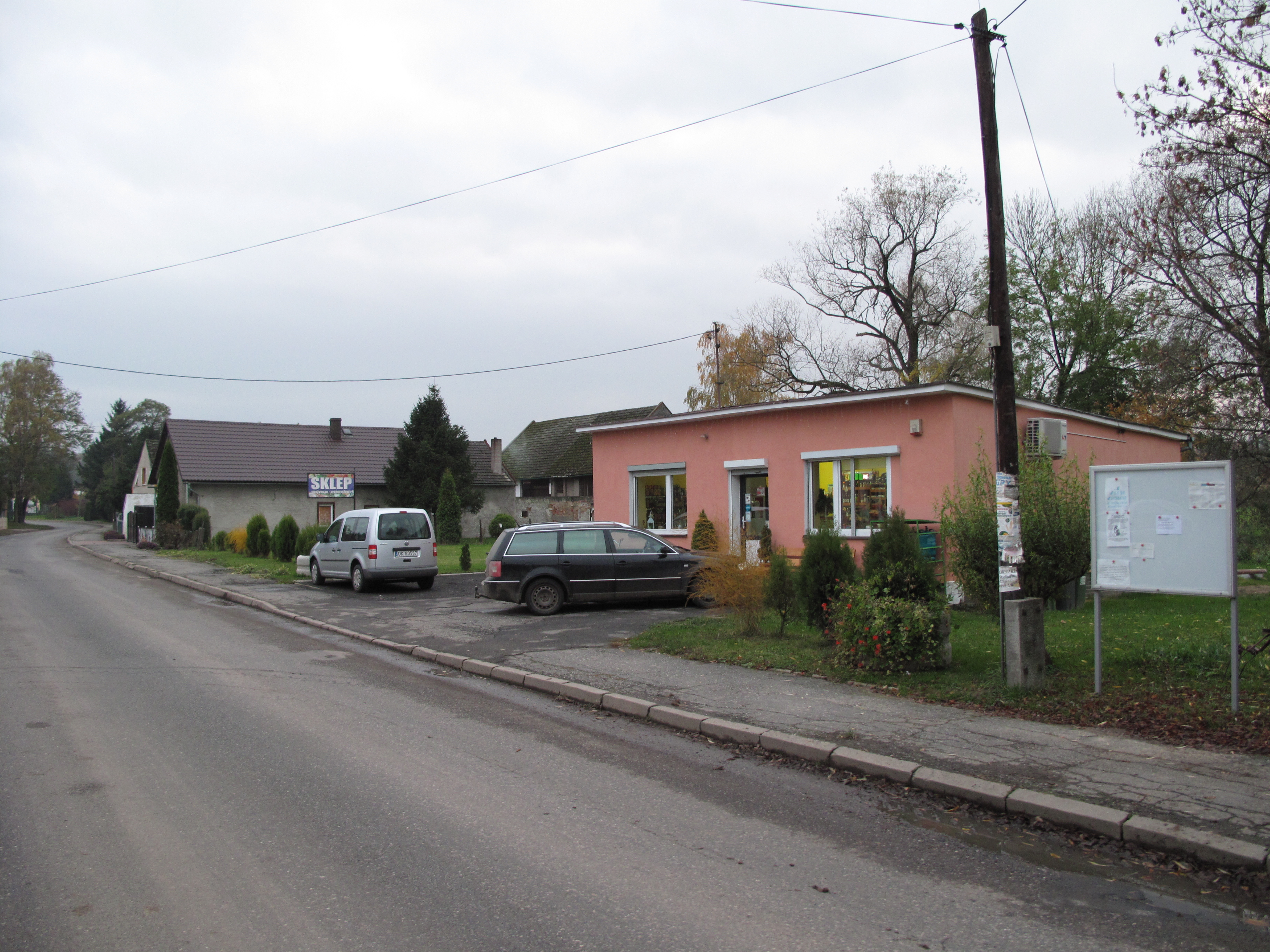 Grudynia Mała. Kędzierzyn-Koźle County, Poland.